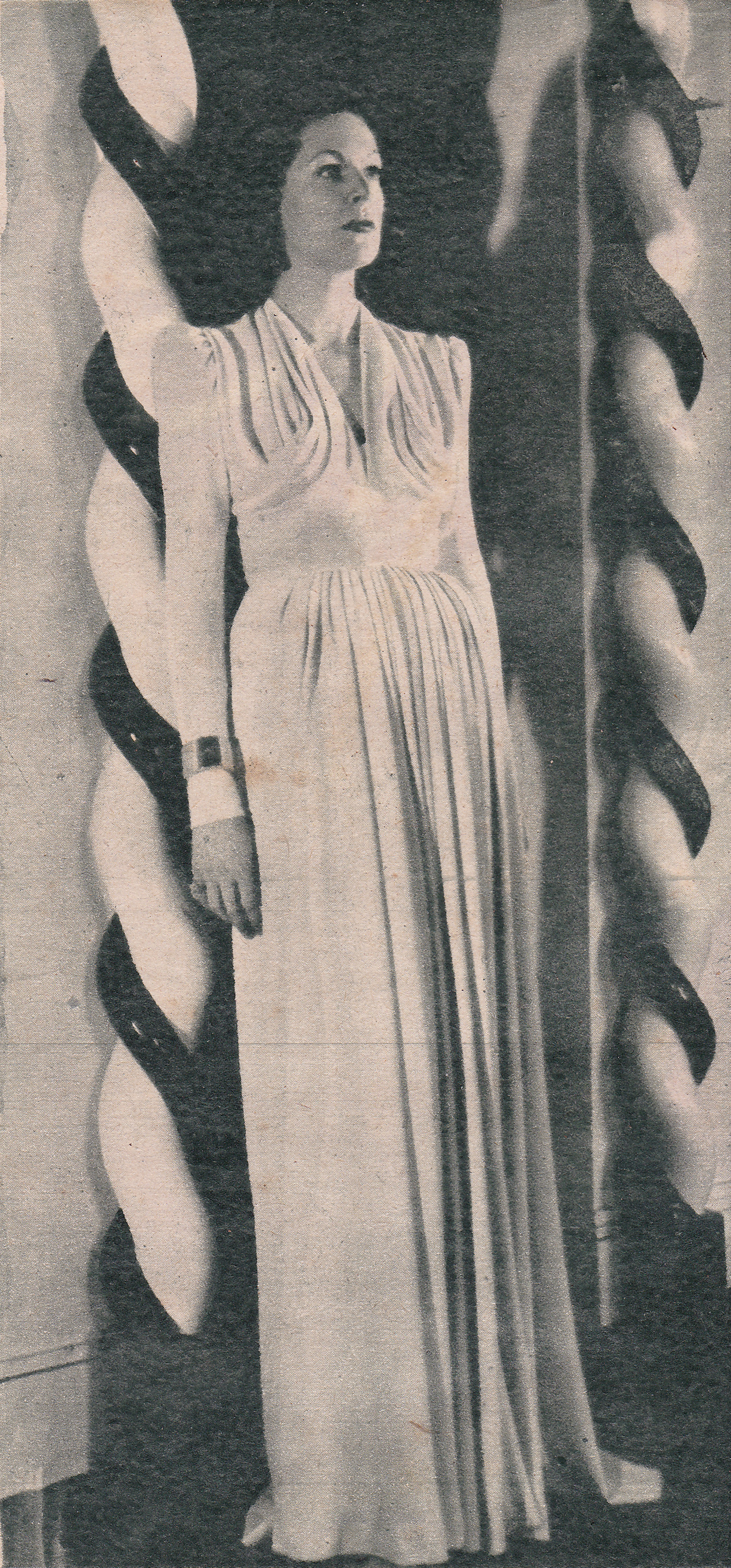 French actress Madeleine Robinson.